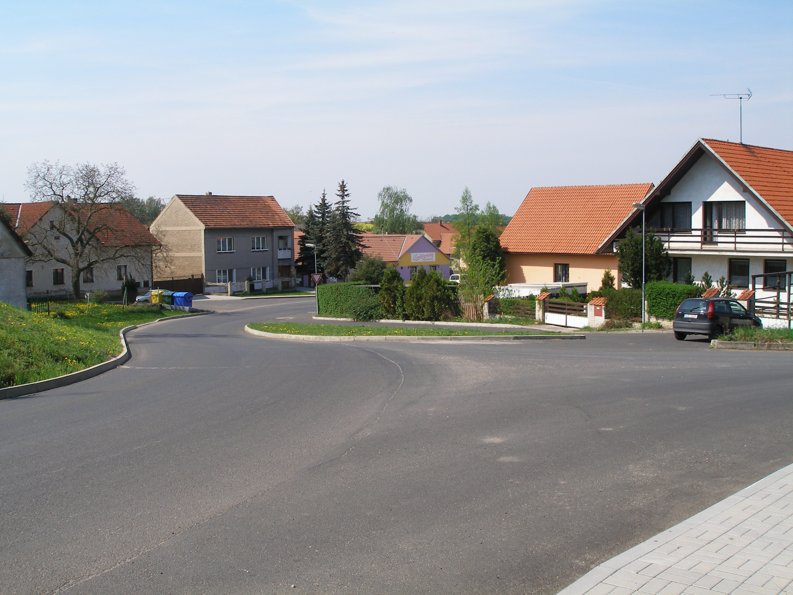 Village square in Černouček.